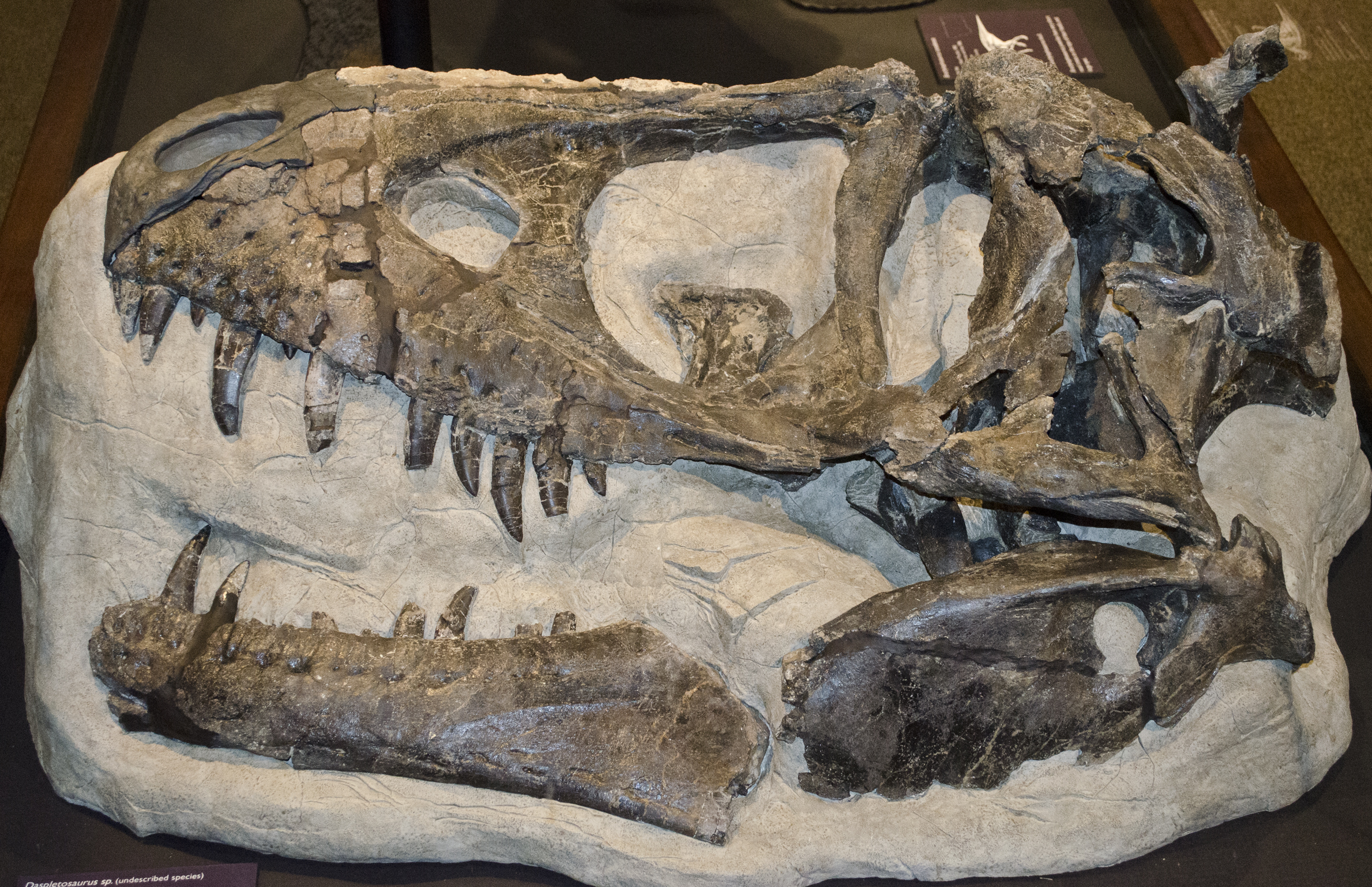 An adult Daspletosaurus horneri skull at the Museum of the Rockies in Bozeman, Montana. Daspletosaurus is one of the tyrannosaurids. It lived just before T. rex, and although not quite as big it had a very heavy skull with massive bones. This skull was found in Glacier County, Montana. Although Daspletosaurus specimens in Canada have been fully described as Daspletosaurus torosus, the Montana specimens have not yet been completely examined. It is possible that the Montana specimens may be of two sub-genera of the Daspletosaurus family.